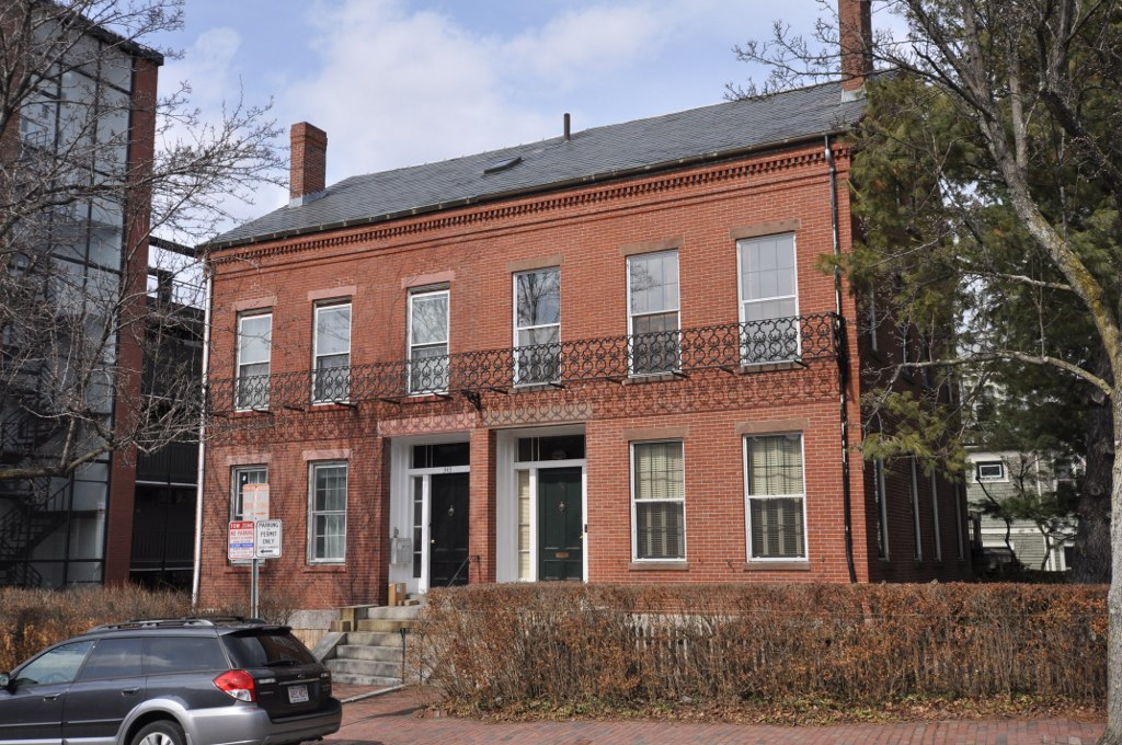 342-44 Harvard Street, in the Harvard Street Historic District, Cambridge, Massachusetts.